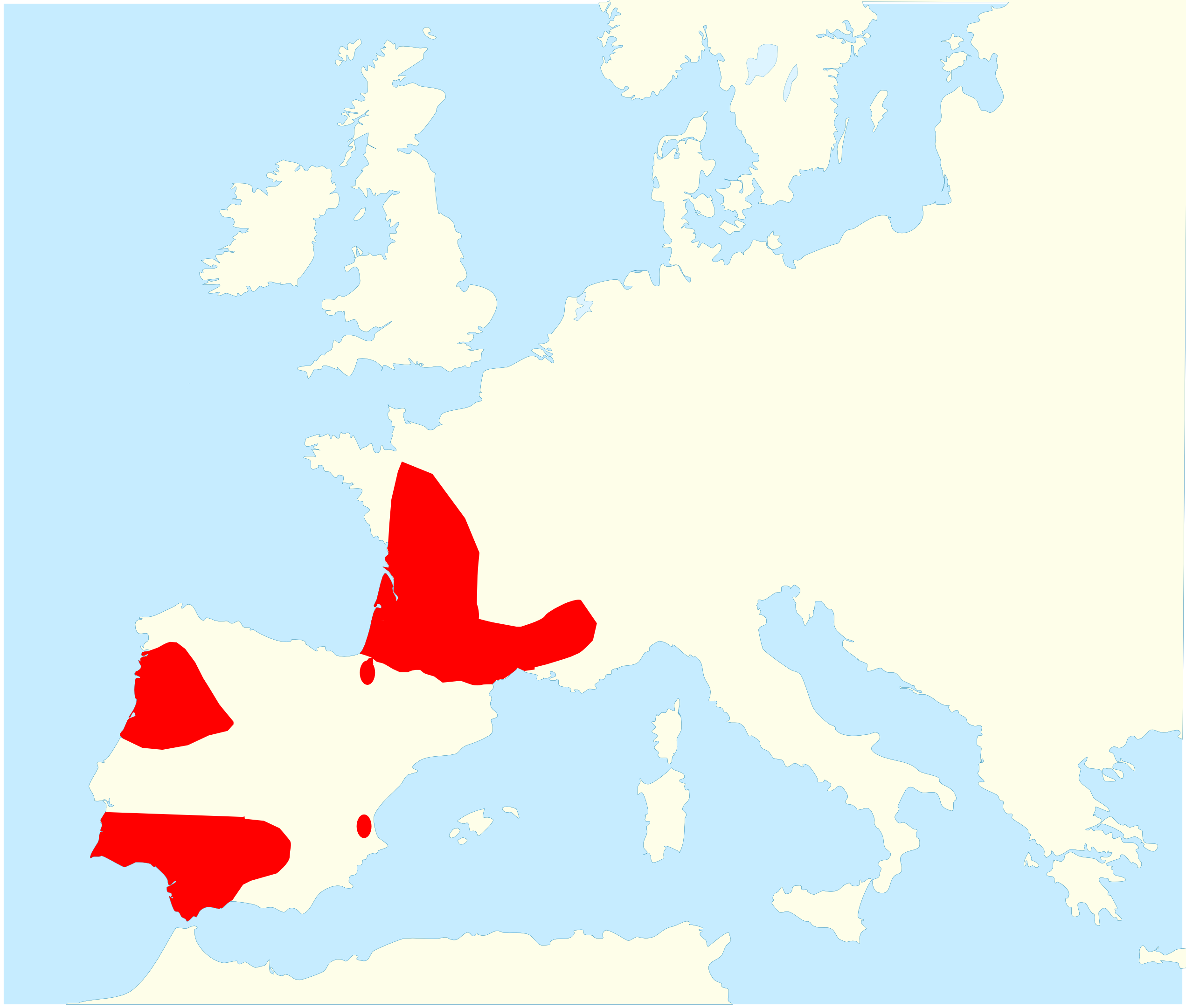 Gomphus graslinii range map.